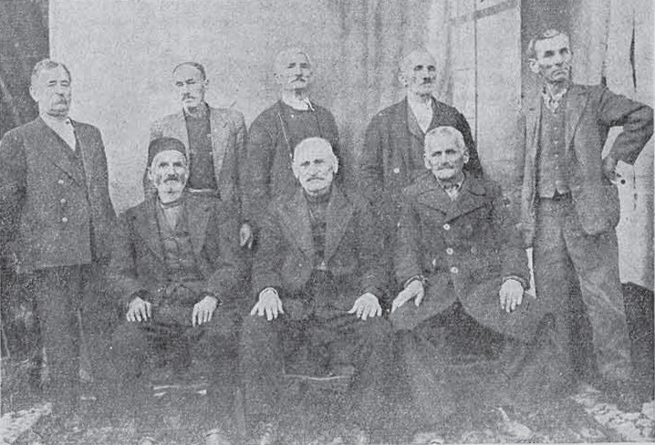 Group of Ilinden members, Ohrid